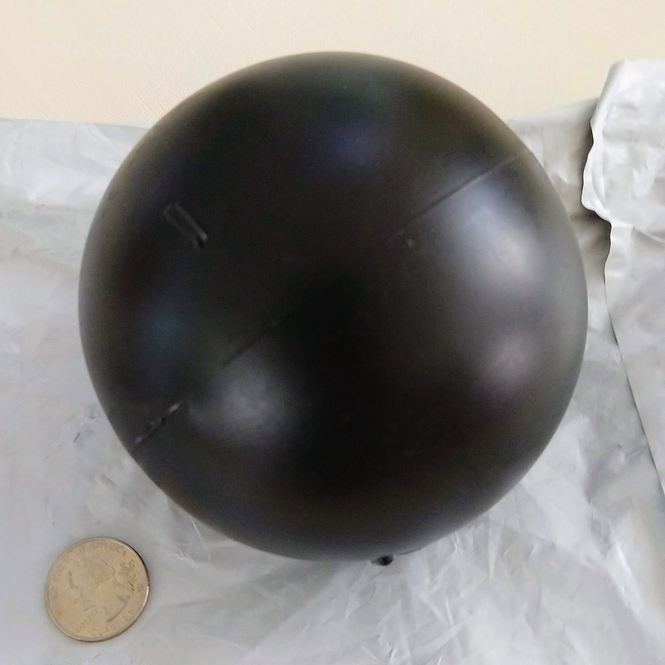 A single Shade ball with a quarter n the image for size comparison.